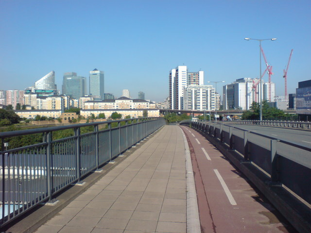 A1020 Lower Lea Crossing At the highest point of the bridge, showing the cycleway and footpath.